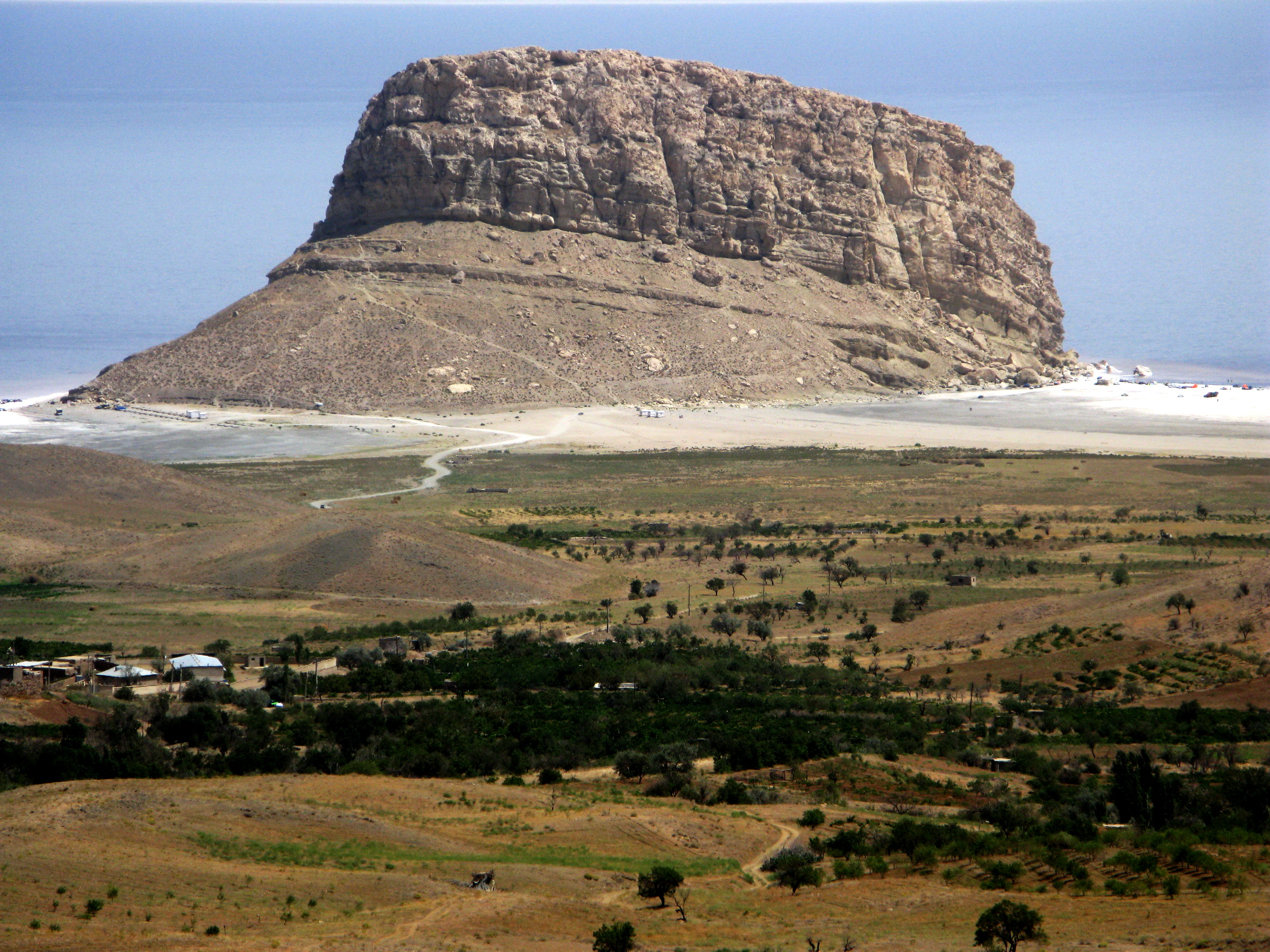 Kazem Dashi in Ghovarchin Ghaleh